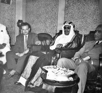 Sheikh Abdallah Al-Jaber Al-Sabbah of Kuwait visiting Dar Ashoura in Cairo in 1954. From right to left: Ahmad Zaki Al-Khayat, Iraq's Permanent Representative at the Arab League - Sheikh Abdallah - Allal Al-Fassi, Leader of the Moroccan Istiqlal Party.